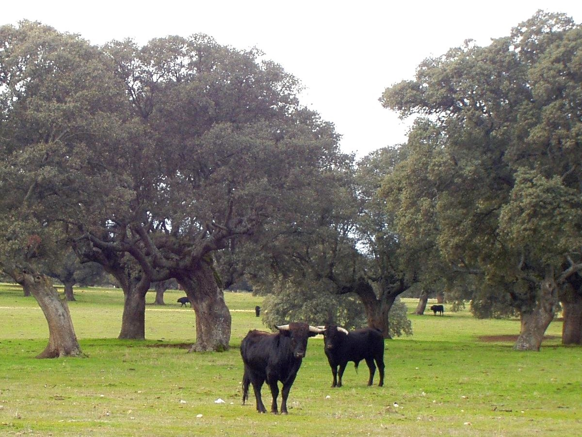 Young fighting bulls in a "dehesa" in Salamanca province in November (cropped).